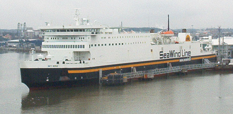 M/S Sky Wind in Turku